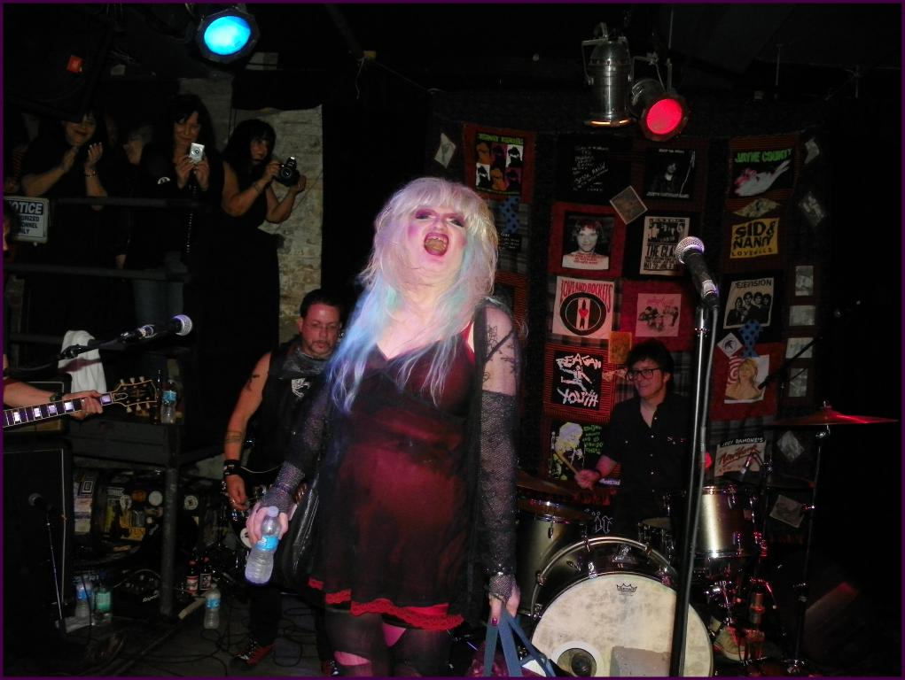 Wayne County & The Electric Chairs at the 2012 Max's Kansas City Reunion at Bowery Electric